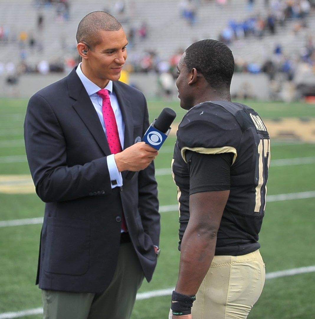 CBS Sports sideline reporter John Schriffen interviews Army quarterback Ahmad Bradshaw after Army's 21-17 win over Buffalo on September 9, 2017 at Michie Stadium in West Point, New York.